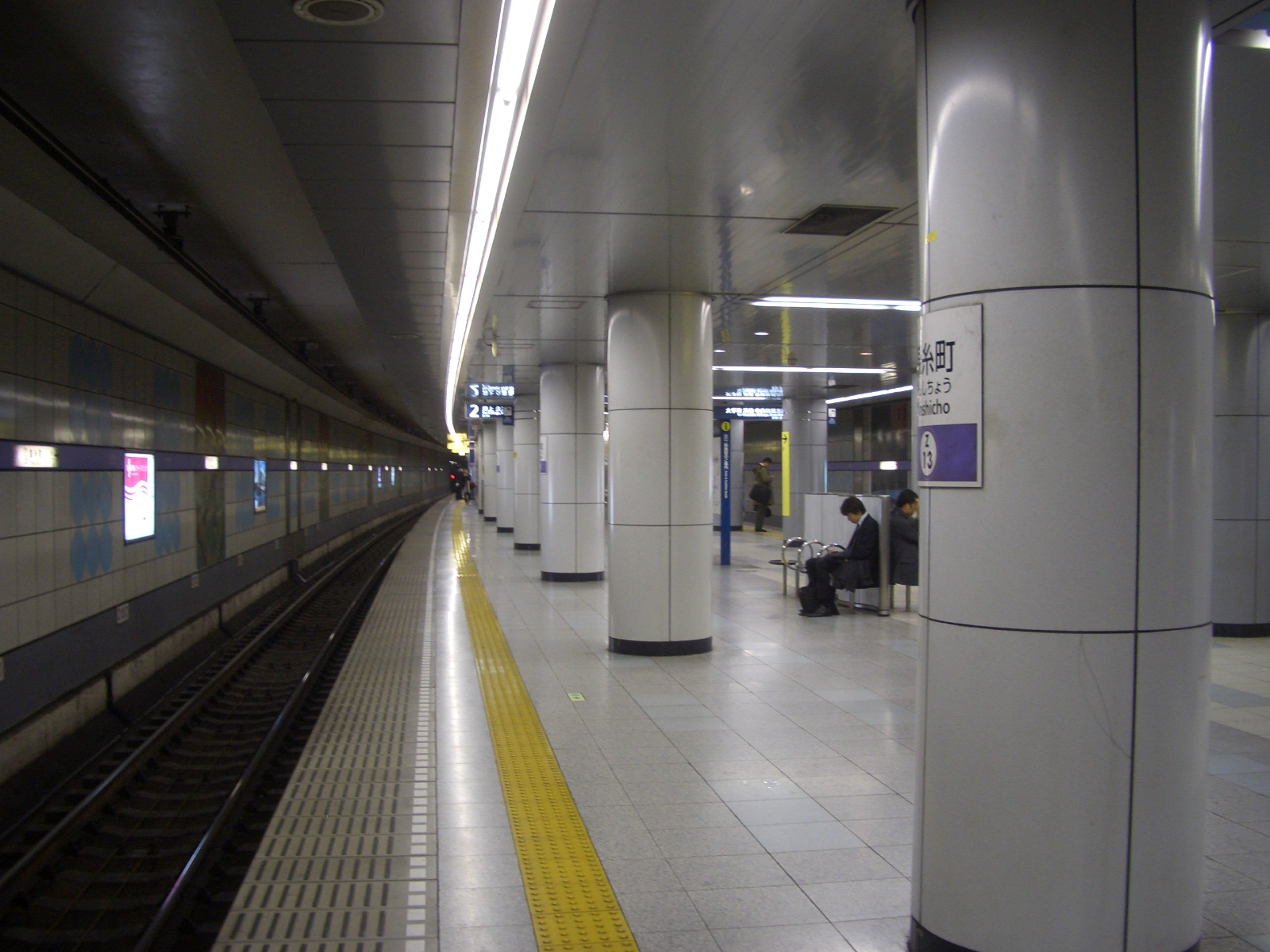 Kinshichō Station (Tokyo Metro Hanzōmon Line) Plaform No. 2